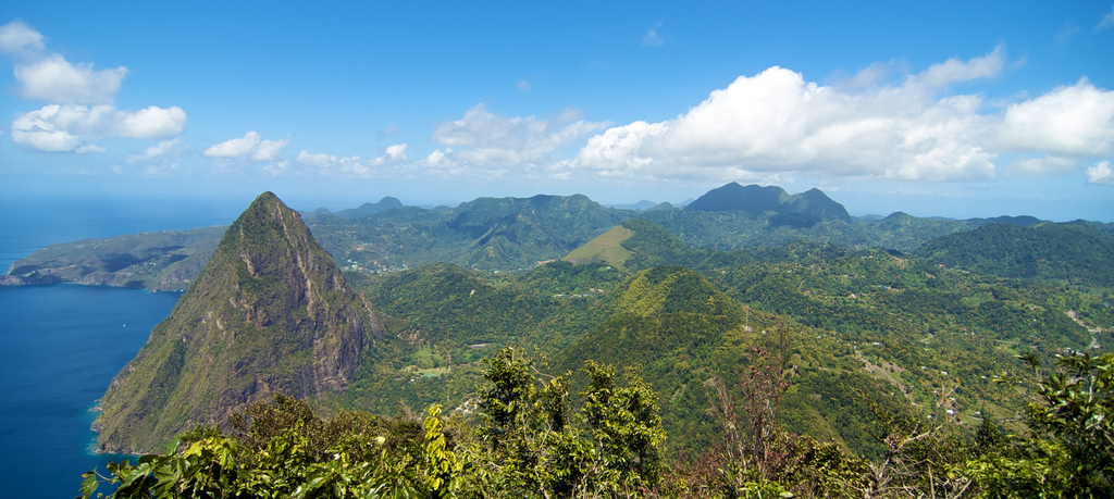 View from the Gros Piton to the north